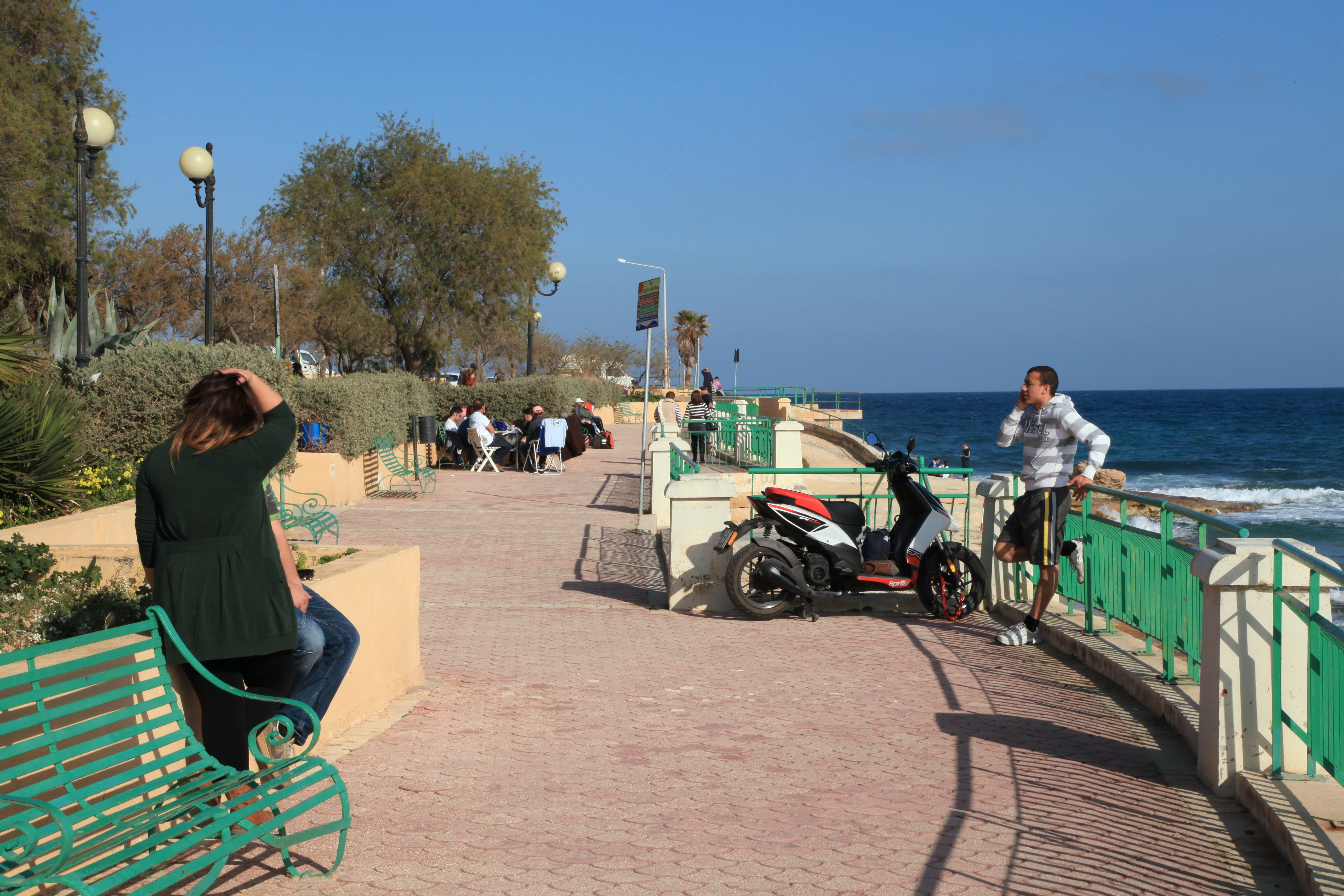 Ġnien il-Bajja ta' San Tumas, Triq il-Qalet, at the St. Thomas Bay in Marsaskala, Malta